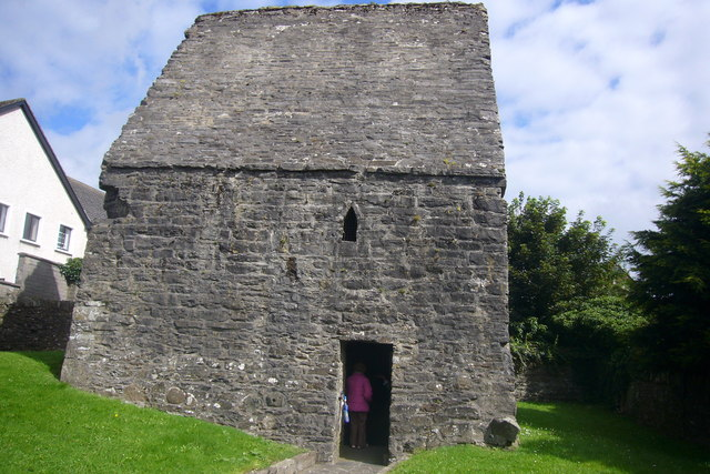 St. Colum Cille's House St. Colum Cille's House probably dates from the early 10th century and is characteristic of an oratory from that period. It is located on the North side of Church lane in the centre of Kells.